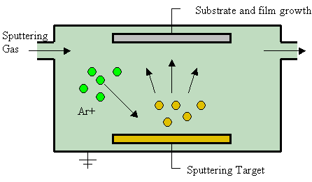 Shows sputtering process.